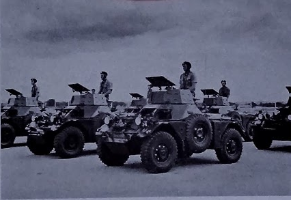 Ferret Scout Cars of A Squadron, "Selous Scouts" (1960-1963), Federal Army. From an advertisement promoting the festivities in the Federation held in honour of then outgoing premier Roy Welensky.